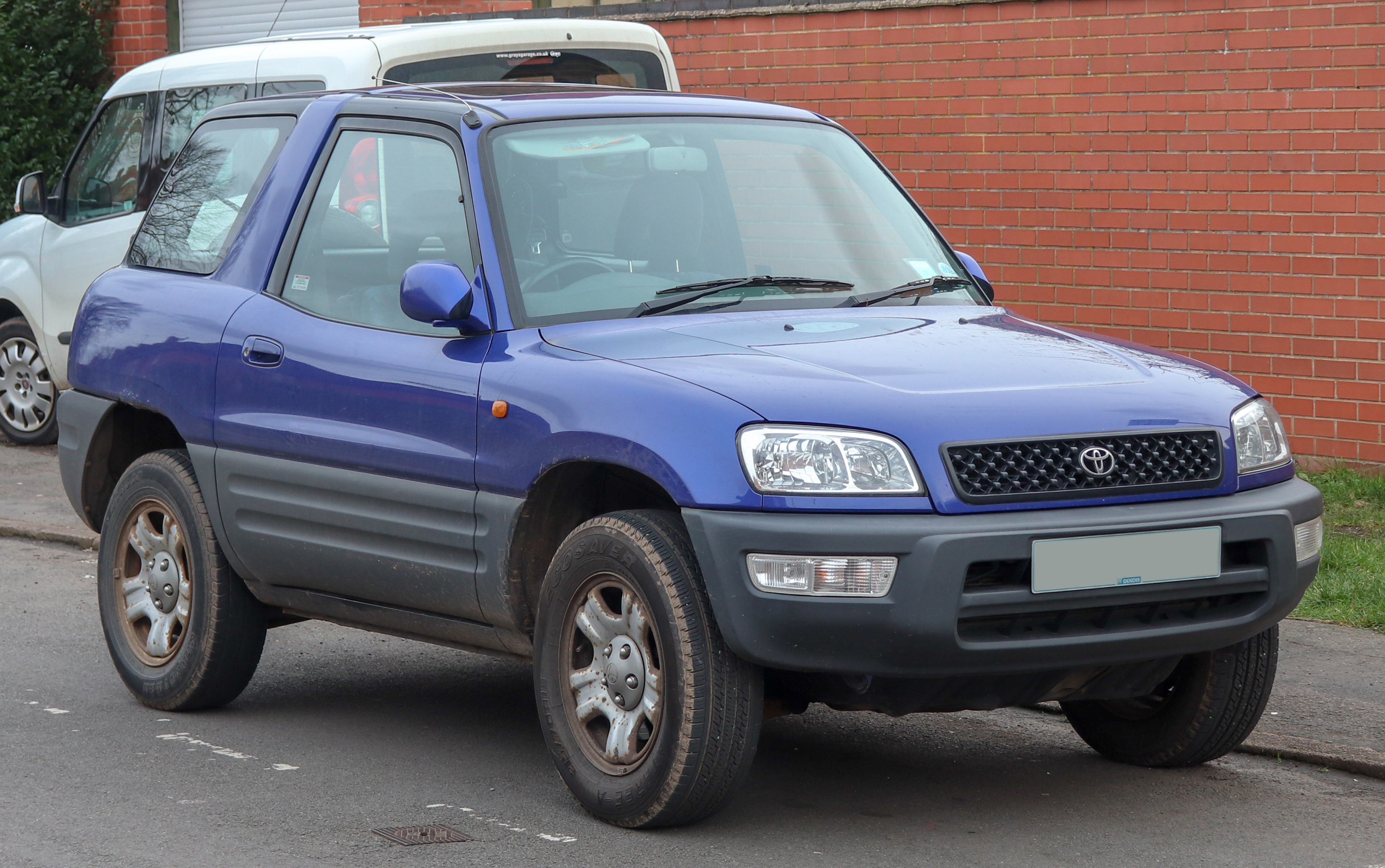 1999 Toyota RAV4 GX Automatic 2.0 Front Taken in Warwick